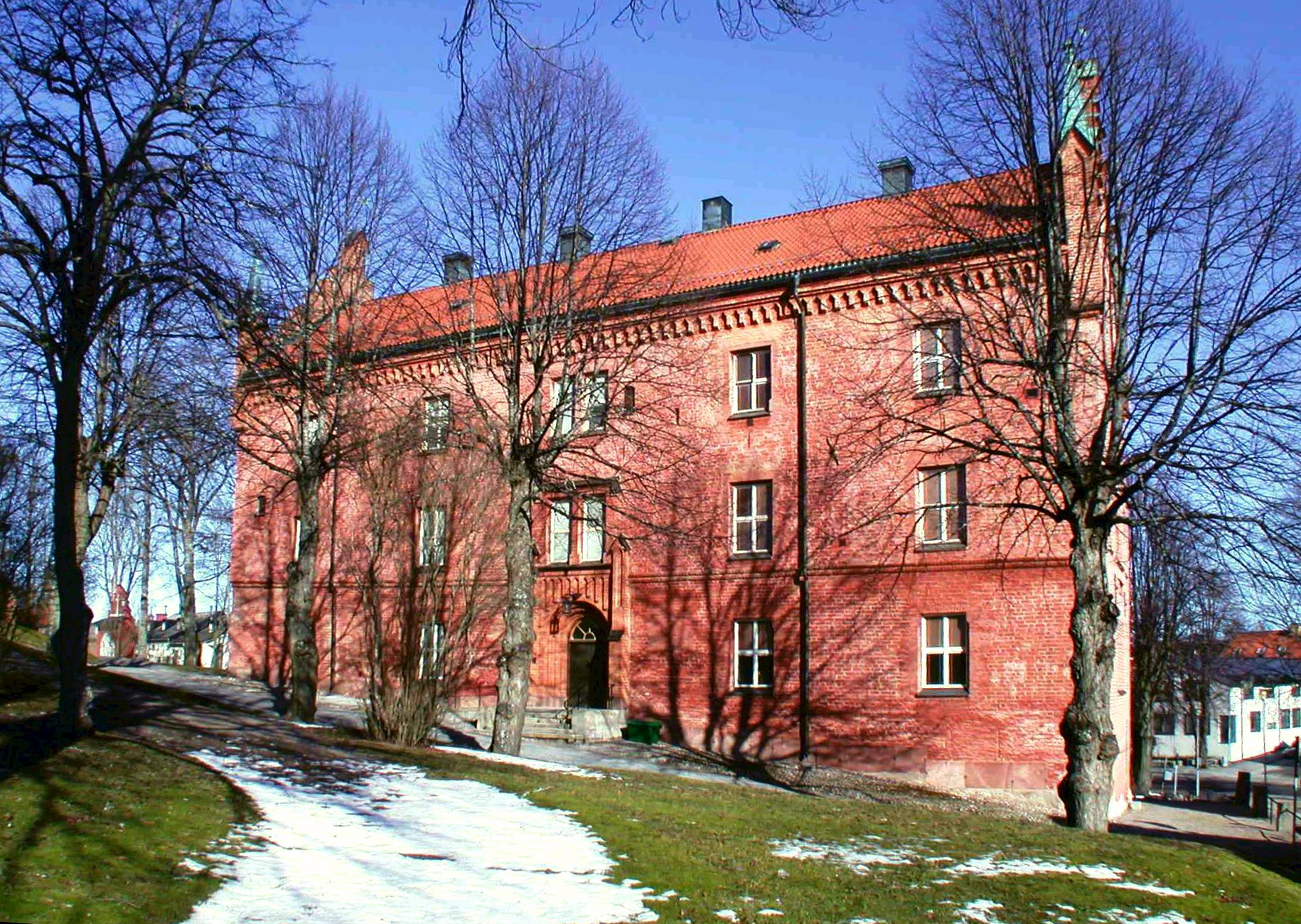 The residence of bishop Kort Rogge, Strängnäs, Sweden. Photo by Riggwelter, March 10, 2007.